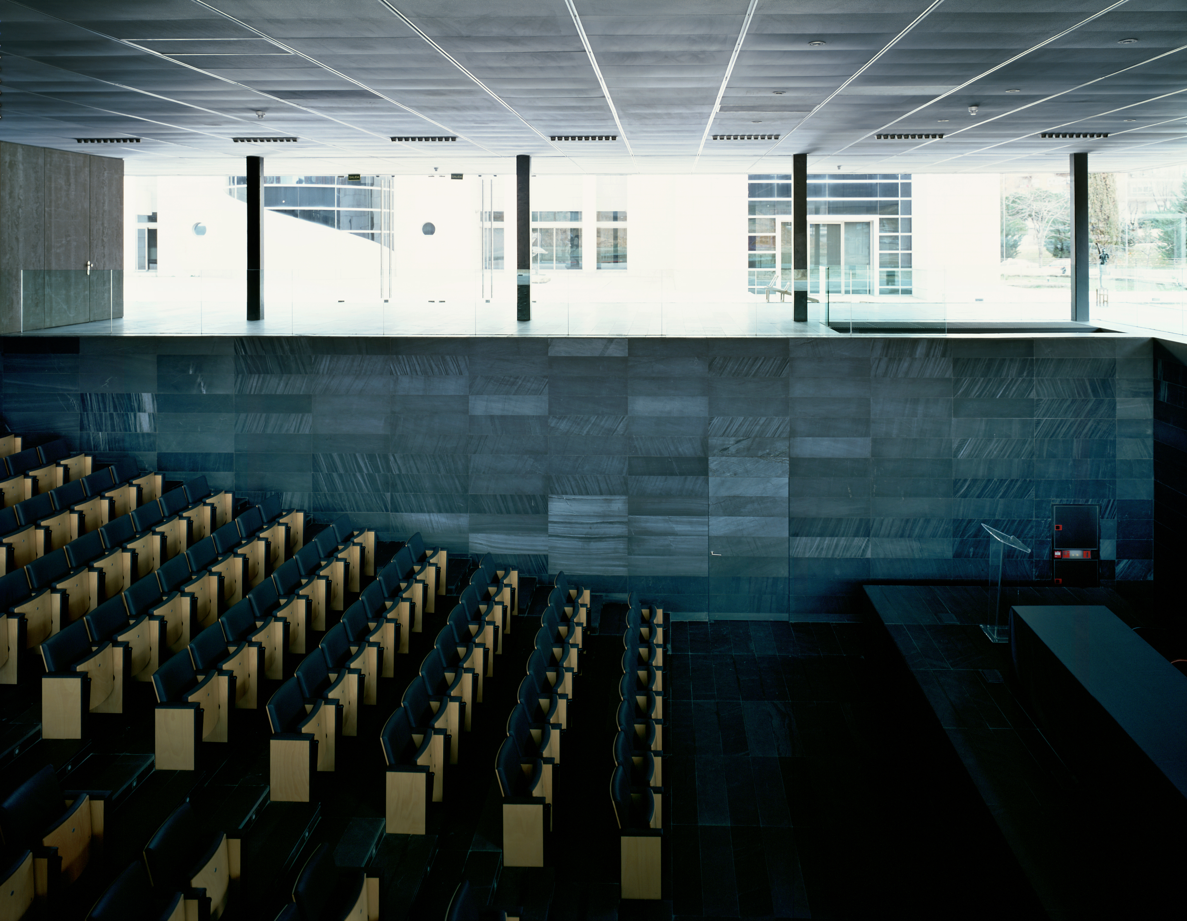 Ampliación Sede COE en colaboración con Rafael de la Hoz